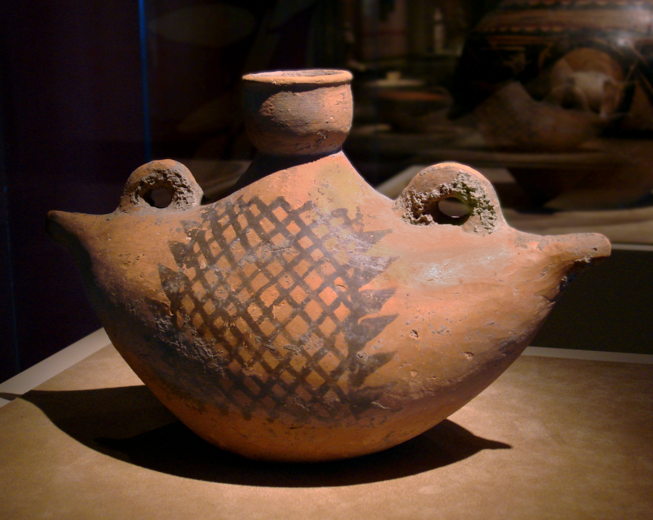 Boat-Shaped Pot. Yangshao Culture. Neolithic Period (ca. 5000 - 3000 B.C.). Painted earthenware, 15.6 tall, 24.8 cm long. Excavated from Beishouling site, Baoji city, Shaanxi province. The black fishnet design on this vessel, which was used to draw water, suggests that the Neolithic Chinese were already using nets to catch fish, as well as using the motif as a decorative pattern. National Museum of China.